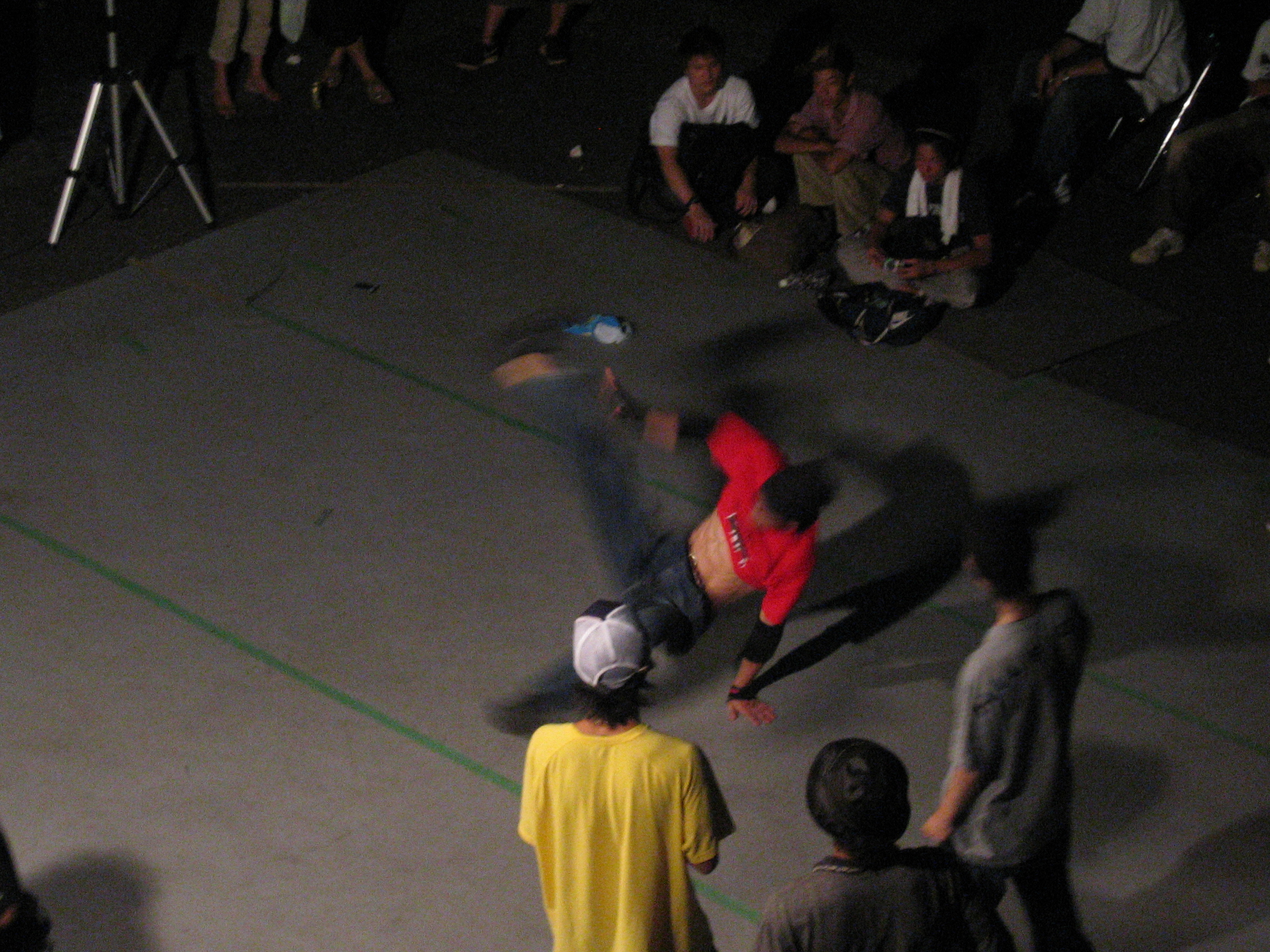 Breakdance - Yoyogi, Tokyo, Japan.